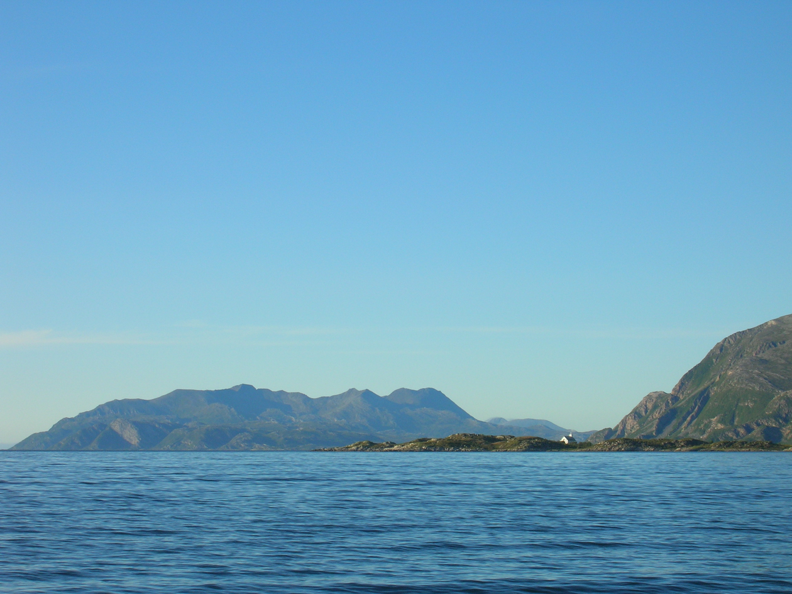 Gåsvær seen from the sea